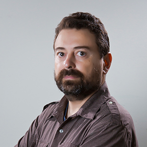 Mexican writers, Victor Barrera Enderle